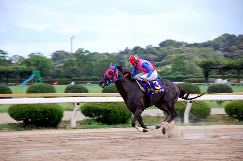 Horse race in Saga Racecourse.